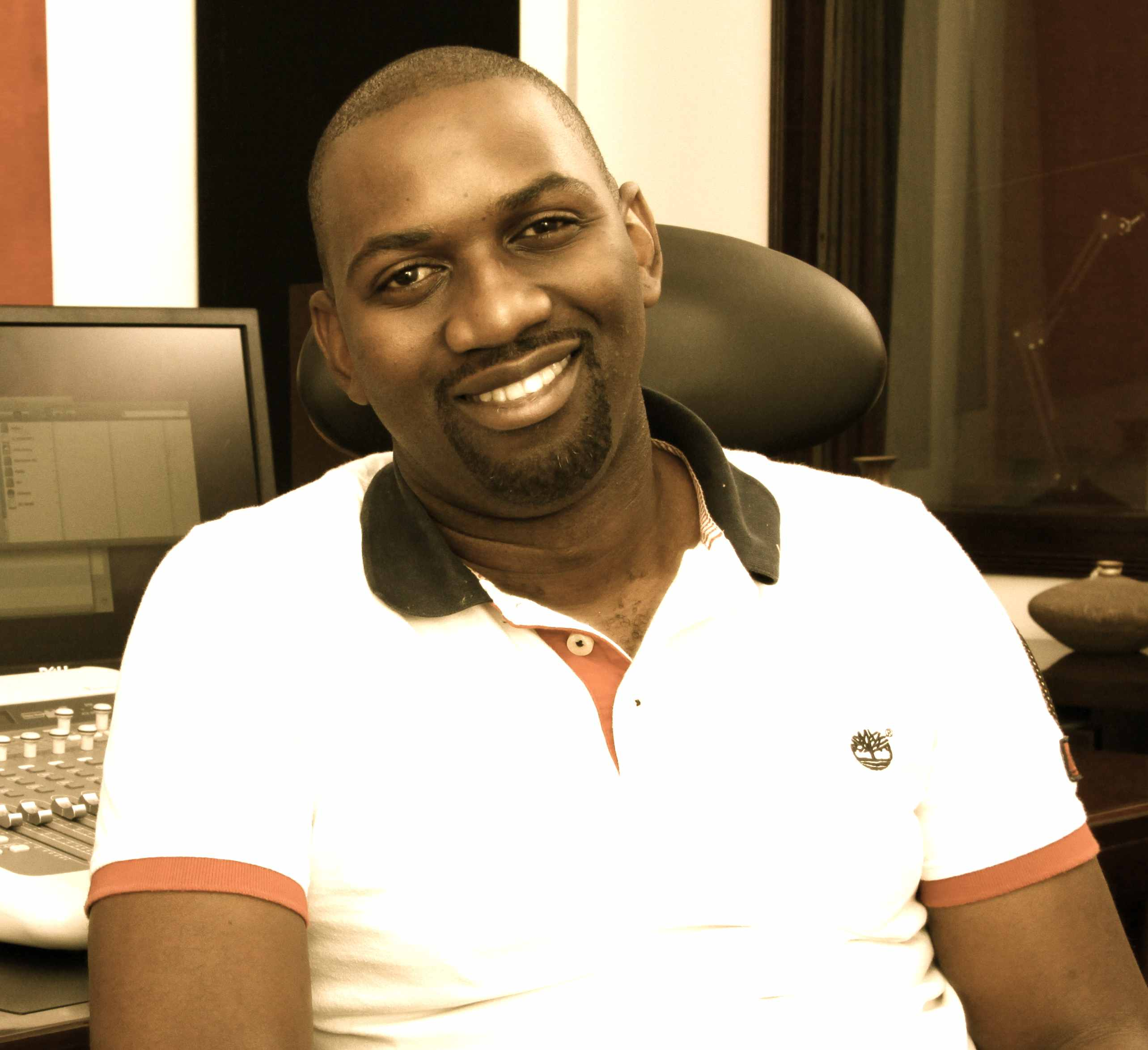 Photo taken at Chilu's recording studio